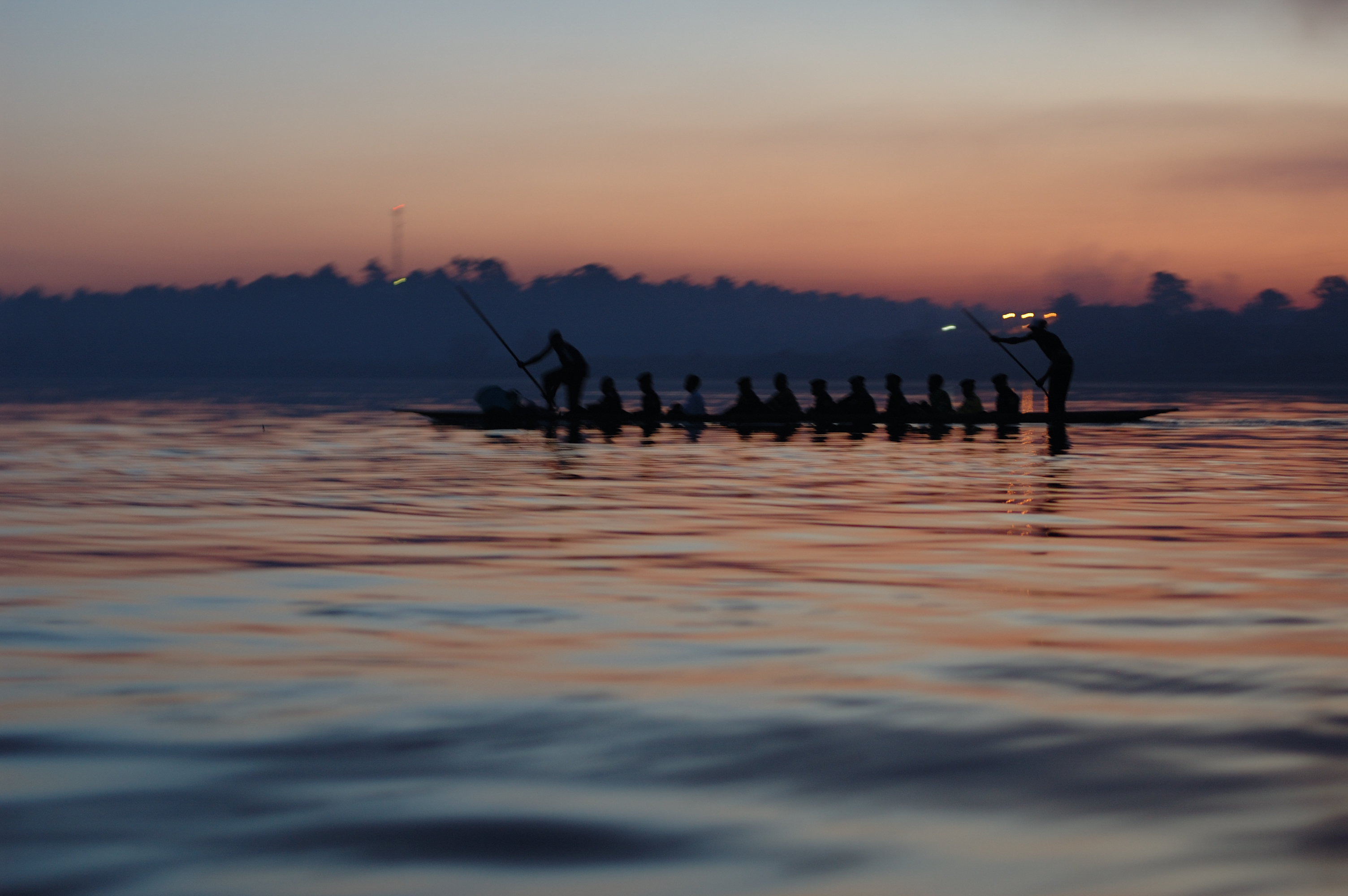 Pirogues on the Congo